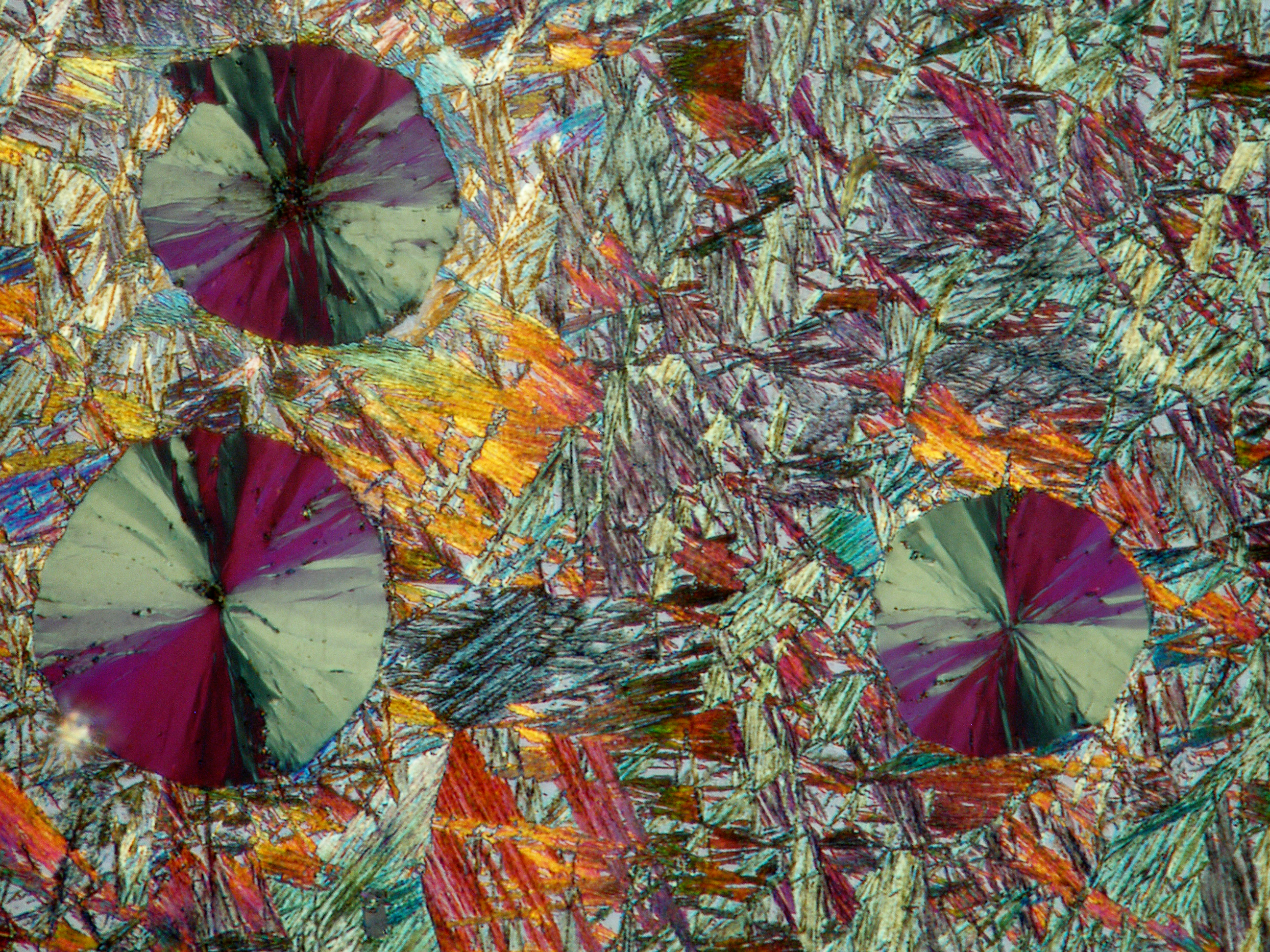 Microstructure of Austempered Ductile Iron (ADI), selective colour etching, taken by light microscopy using polarized light, mag.1000x with interface digital camera. It is characterized by its spheroidal graphite nodules spaced within the matrix. These nodules reduce microsegregation of solutes within the material. For ADI, the material has been austempered such that the matrix is transformed into ausferrite, or a mixture of acicular ferrite and austenite. The microstructure is used to classify ADI into grades, which depend on the heat treatment process and not the composition of the material.